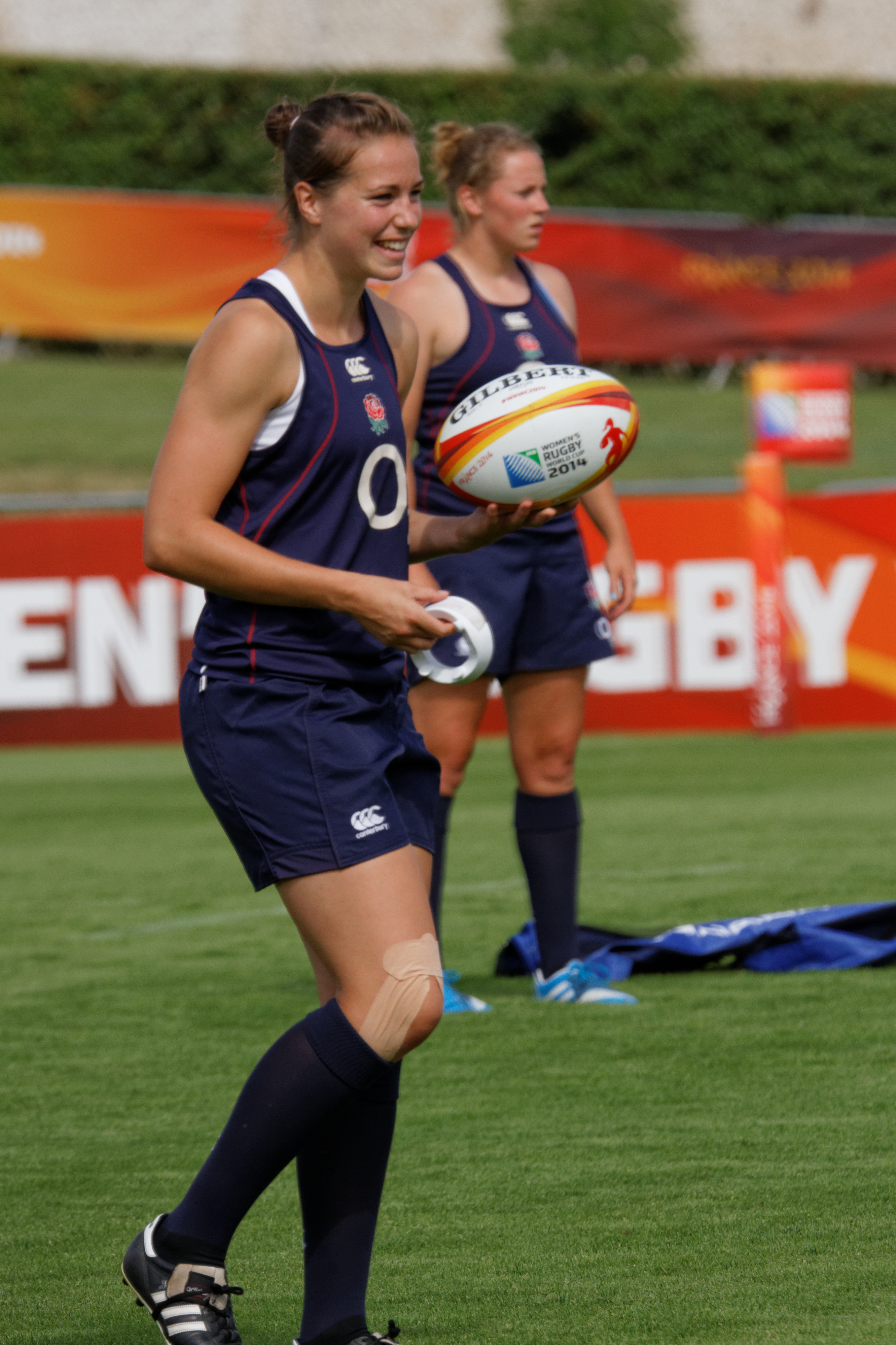 2014 Women's Rugby World Cup